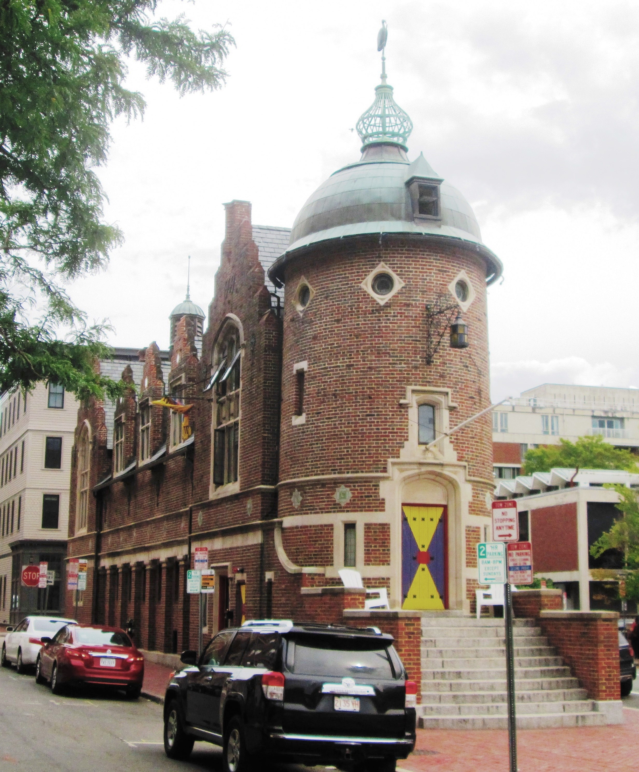 The Harvard Lampoon Building, also known as the Lampoon Castle, is a historic building located at 44 Bow Street between Plympton, Linden, and Mount Auburn Streets in Cambridge, Massachusetts. It is best known as the home of The Harvard Lampoon and for its unusual Mock Flemish design by Edward M. Wheelwright. It was constructed in 1909 and was added to the National Register of Historic Places in 1978.